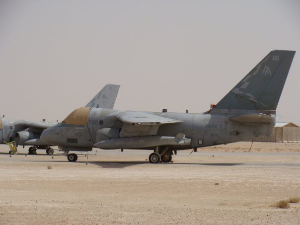 A U.S. Navy Lockheed S-3B Viking assigned to Sea Control Squadron VS-22 deployed to Al Asad, Iraq.